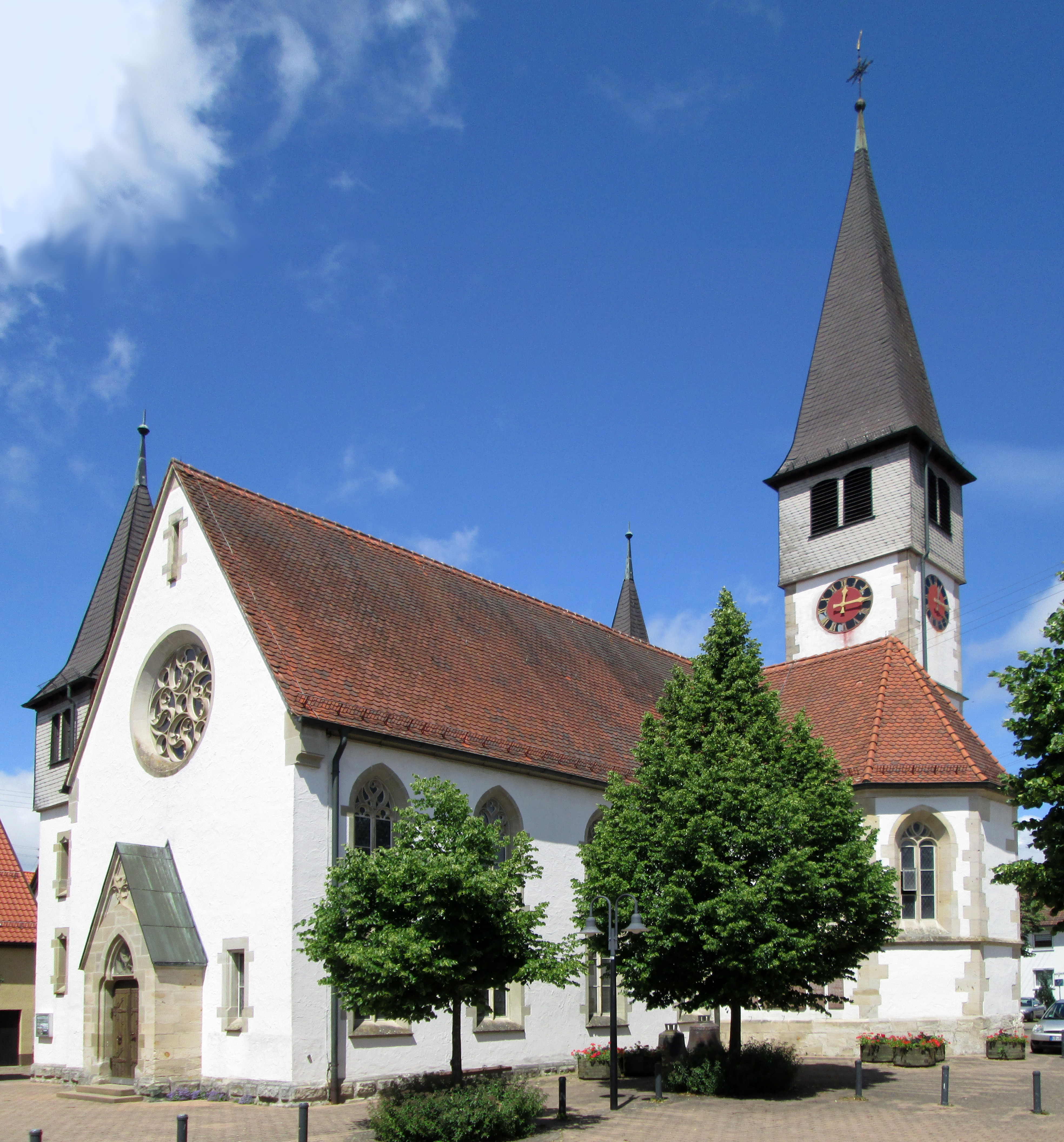 Lindach Lutheran church, seen from southeast